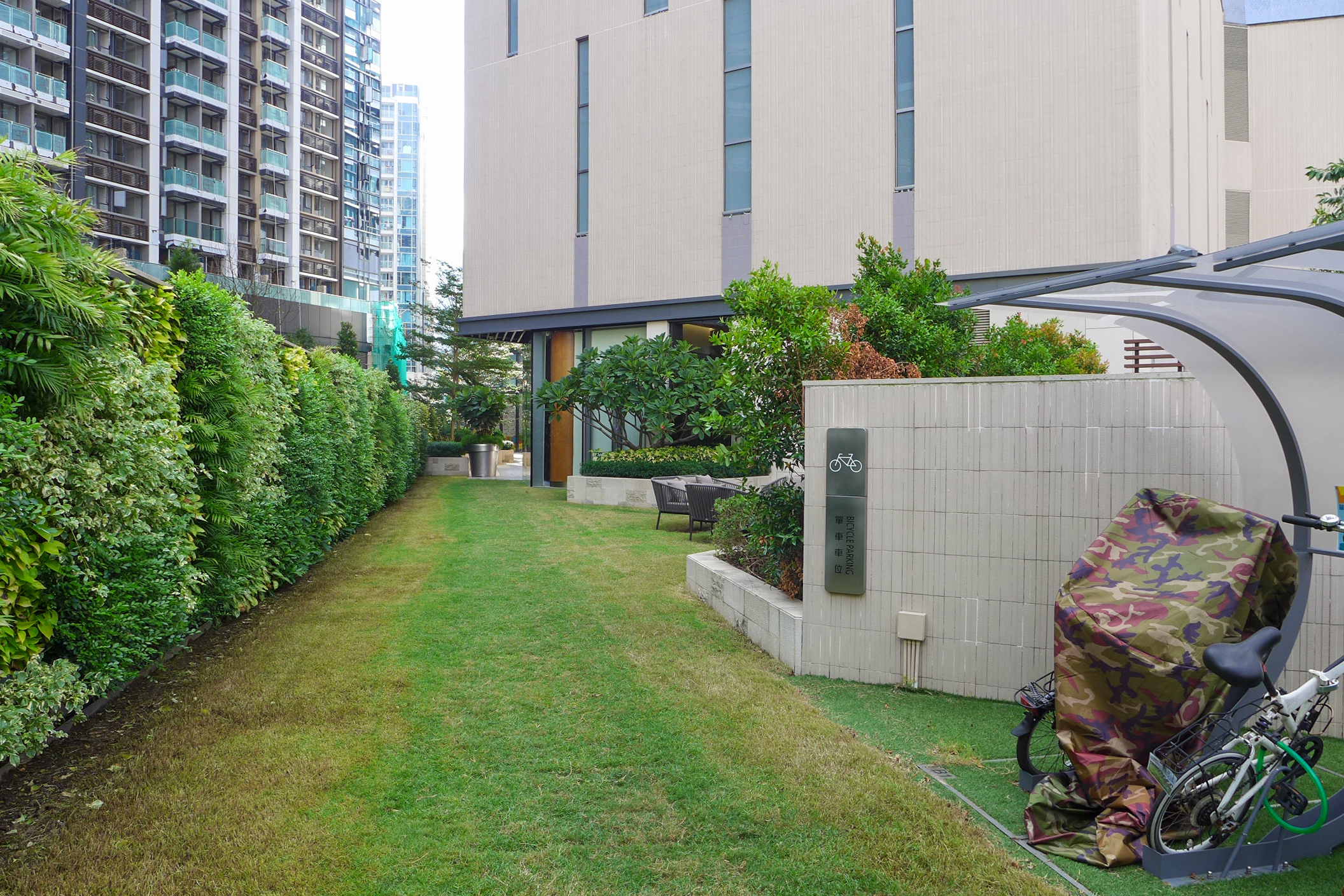 Twin Peaks GF bicycle parking